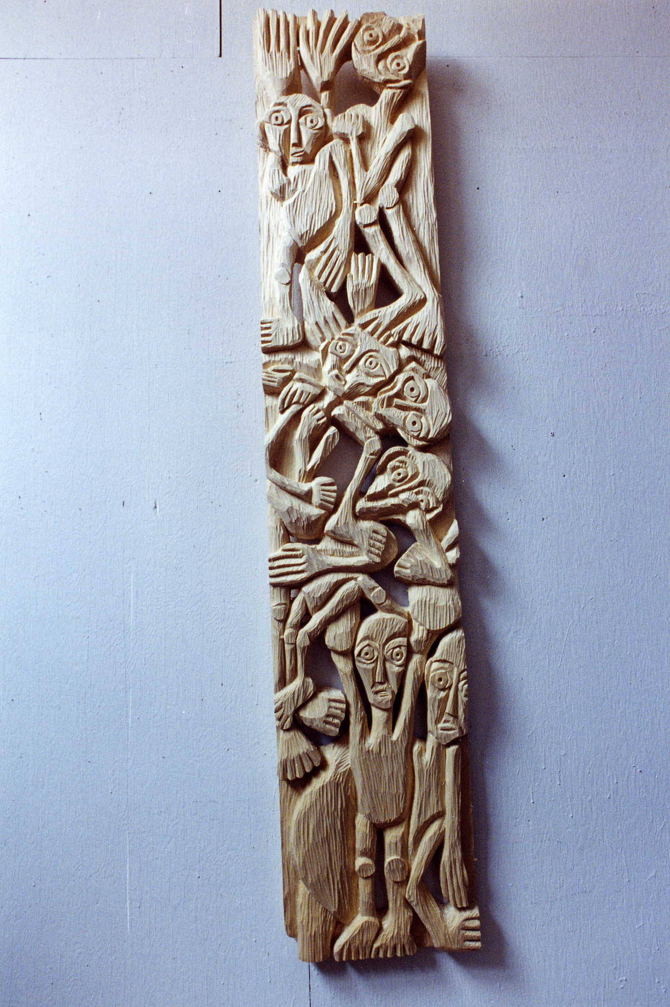 Photo of the Wood sculpture No.107, "Deportation Train", by R. Koczy